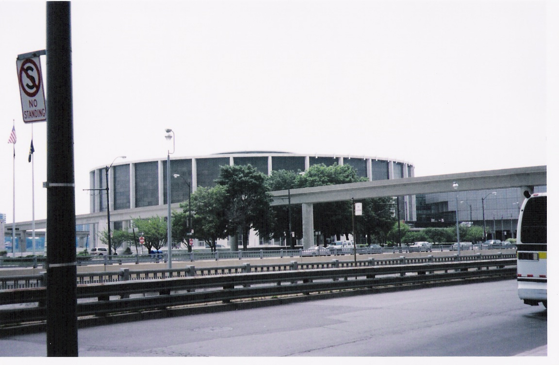 Detroit's Cobo Center. The Cobo Arena lies along the city's riverfront, adjacent to Cobo Hall.